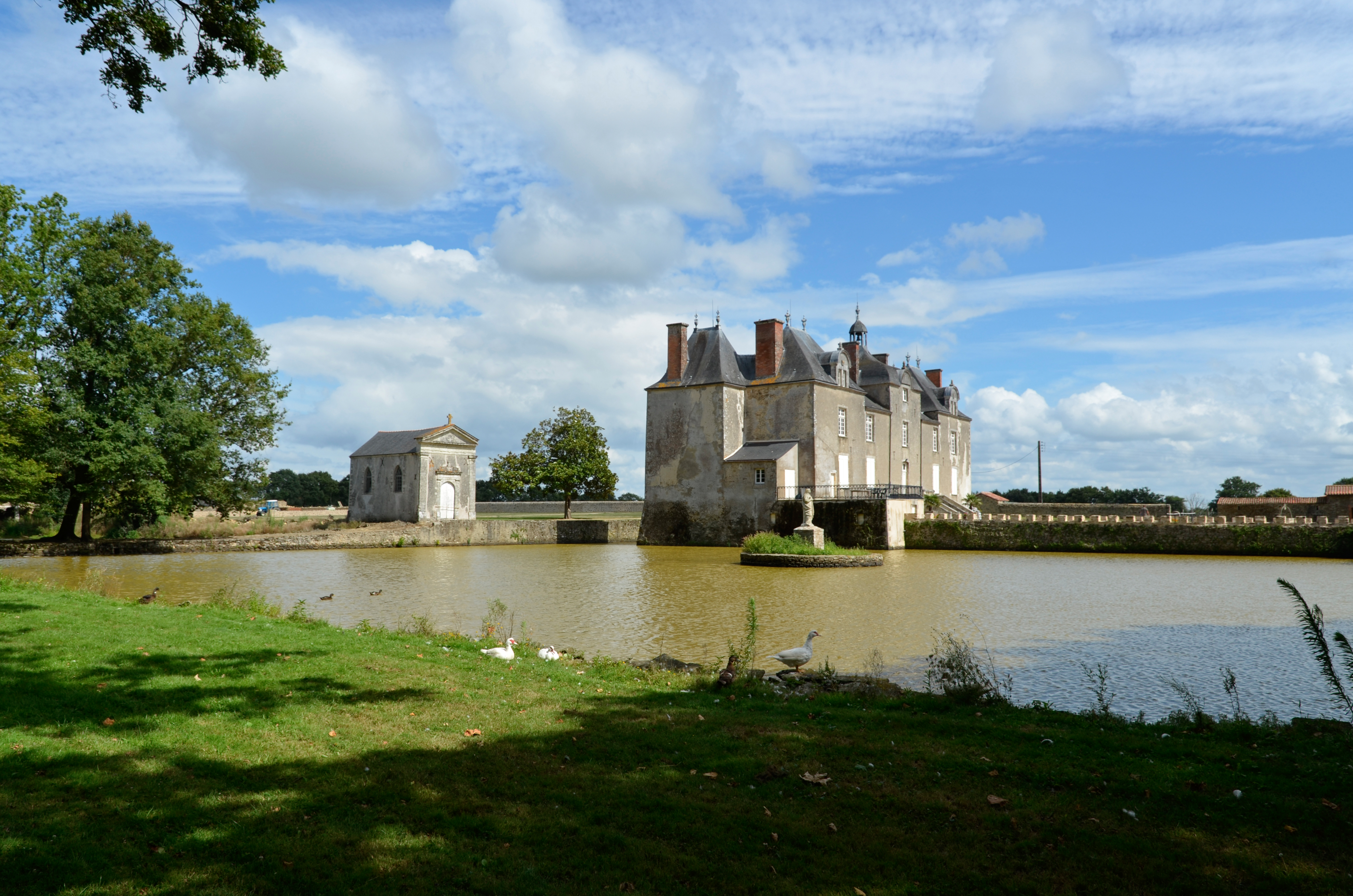 Bois Chevalier castle - Legé, Loire-Atlantique, France